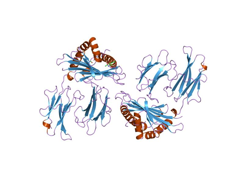 Cartoon representation of the molecular structure of protein registered with 1mhc code.